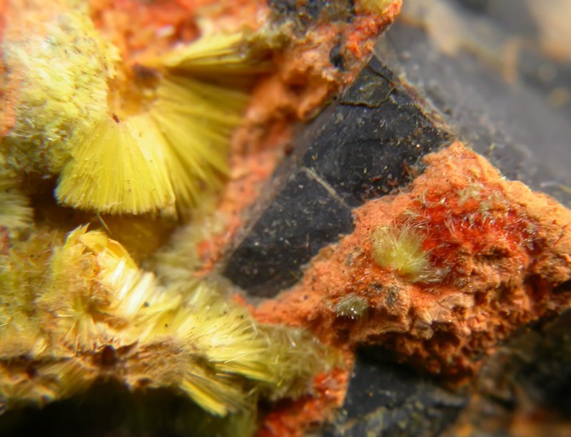 Studtite, Fourmarierite, Uranophane - alpha, Uraninite Locality: Shinkolobwe Mine (Kasolo Mine), Shinkolobwe, Central area, Katanga Copper Crescent, Katanga (Shaba), Democratic Republic of Congo (Zaïre) (Locality at ) Size: 2.8 x 2.2 x 2.5 cm. Although this is a small specimen of Uraninite it is well covered with Studtite sprays up to 3 mm on a bed of Uranophane with orange Fourmarierite. The contrast is amazing and helps to make this a significant, photogenic, Studtite specimen. Fourmarierite is best known as red pseudo-hexagonal crystals but also as orange needles or "grains". On this specimen it is seen as this orange form which is much rarer but mostly overseen or taken for Curite and thus mislabeled if ever it was found in some collections. Shinkolobwe is the Type Locality for the Studtite and the Fourmarierite, a mine closed since decades.